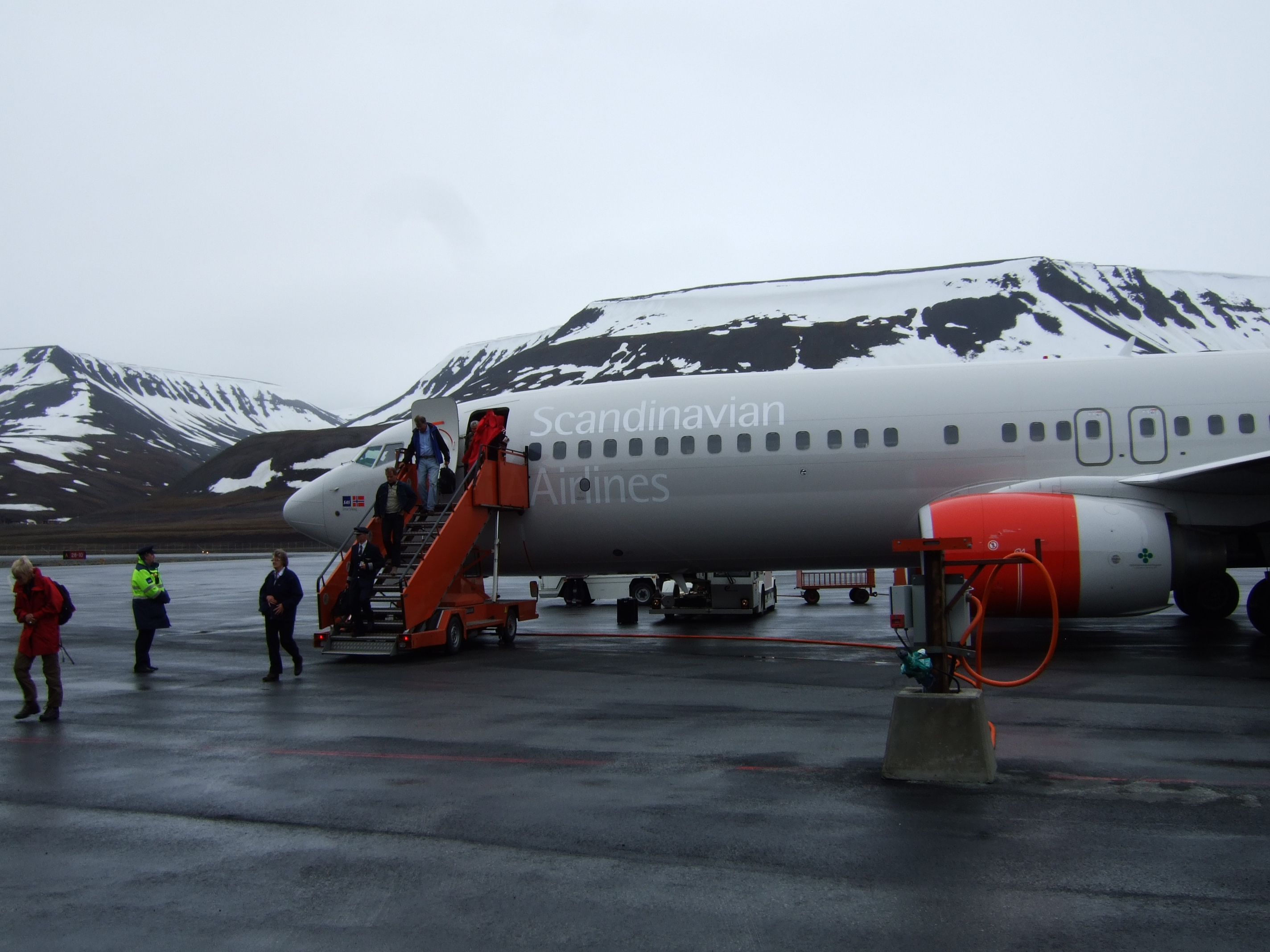 Scandinavian Airlines System Boeing 737 at Svalbard Airport, Longyear